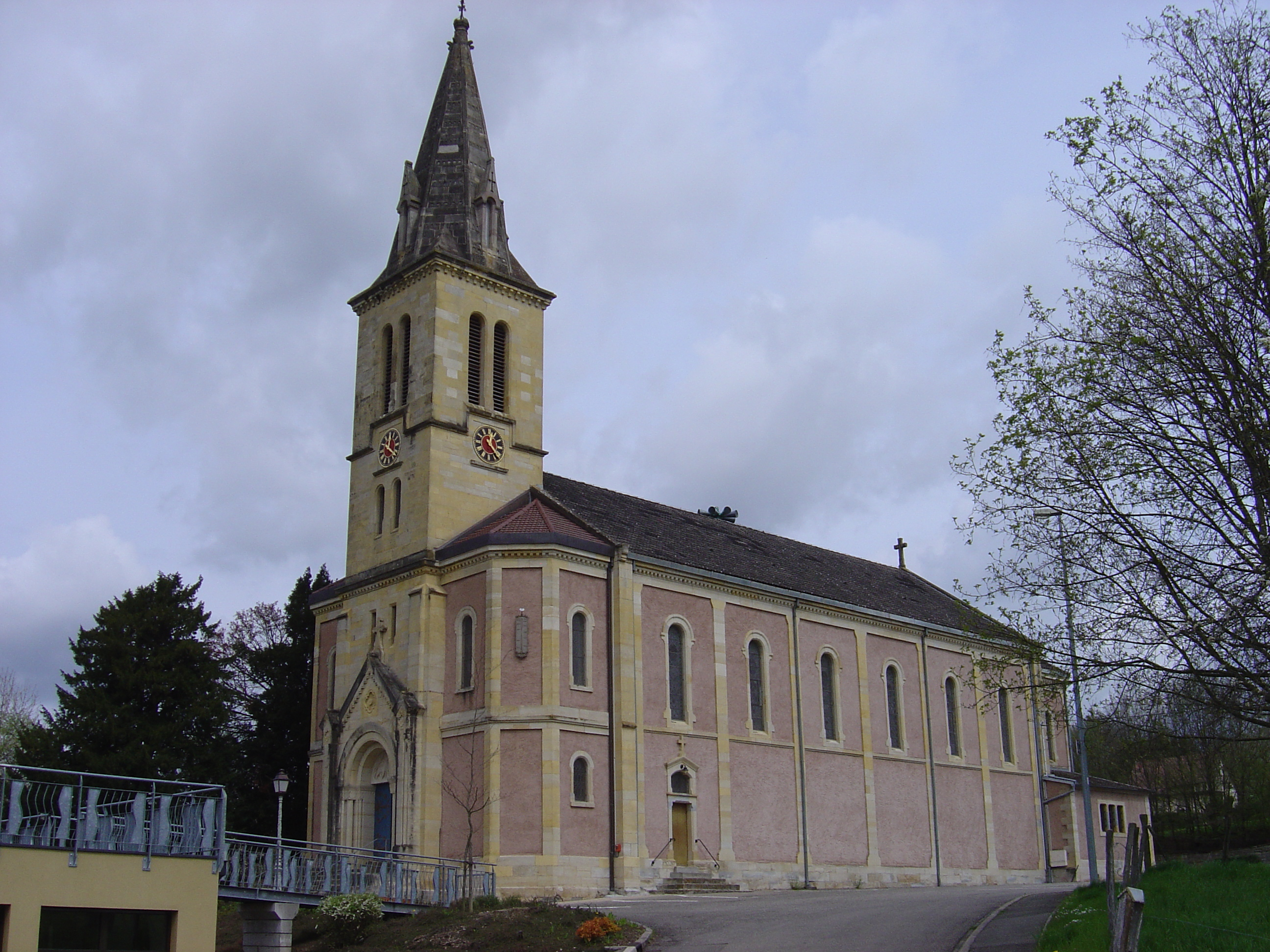 Church of Jettingen - Lateral view